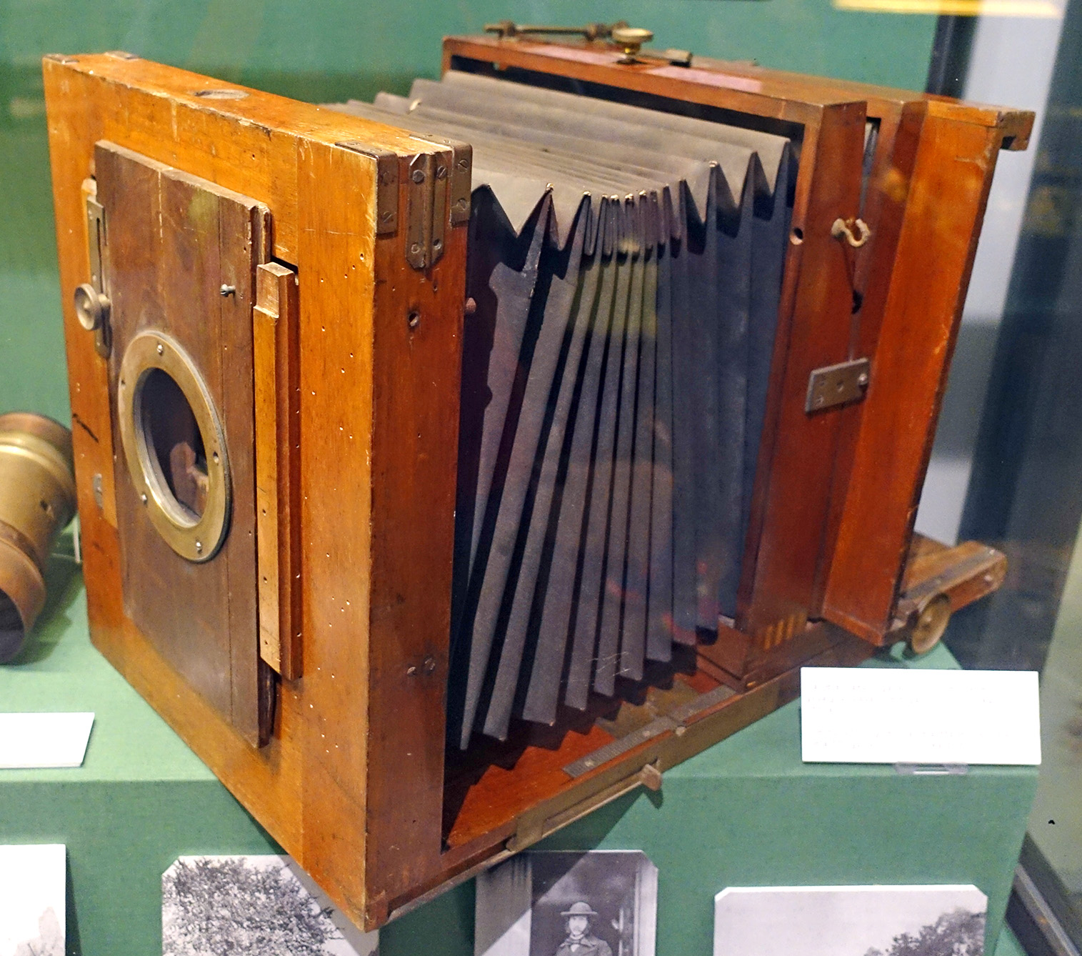 A folding field camera in Swansea Museum.